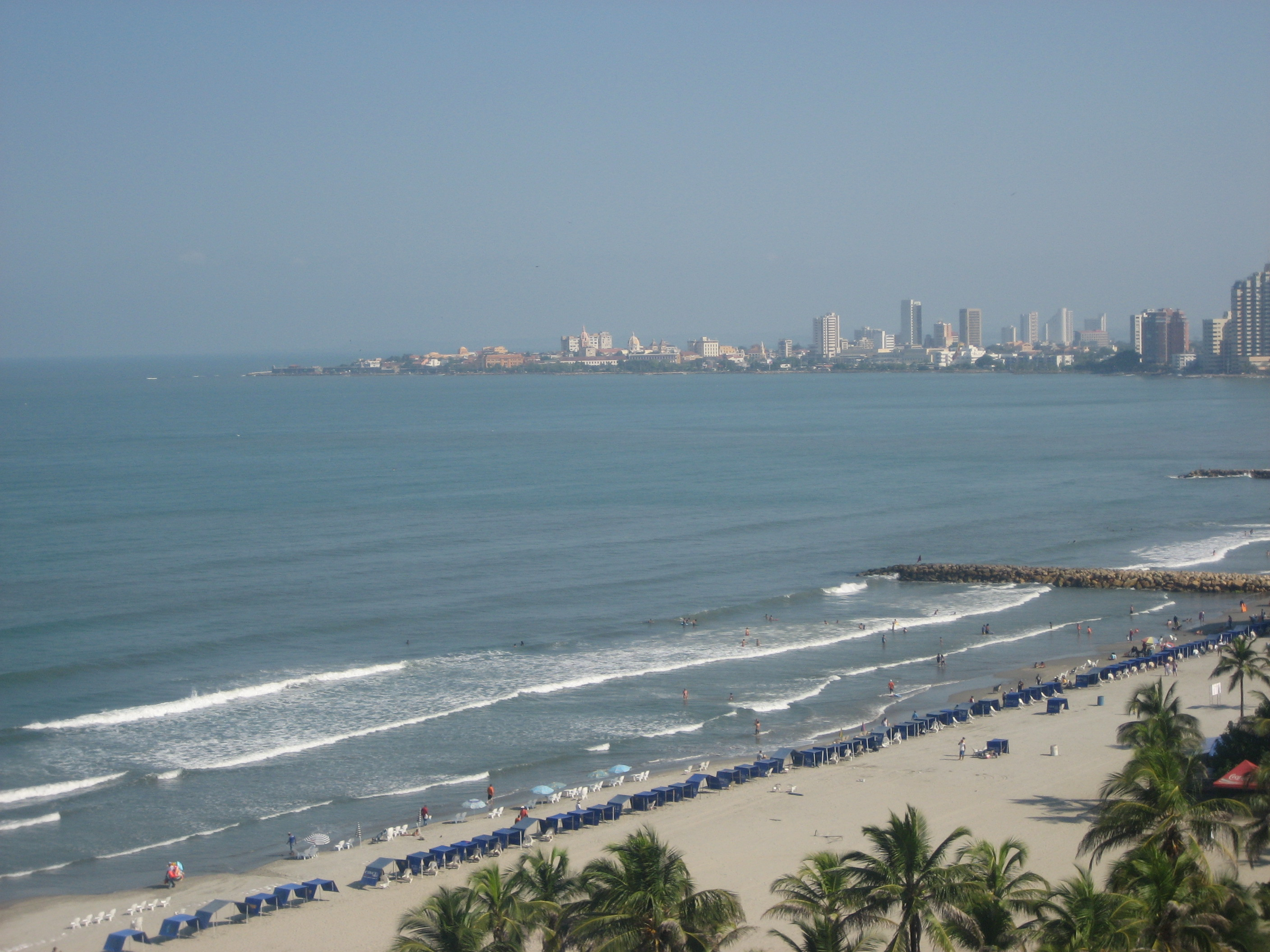 Image of Cartagena, Colombia